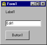 Label, Button, Edit polje